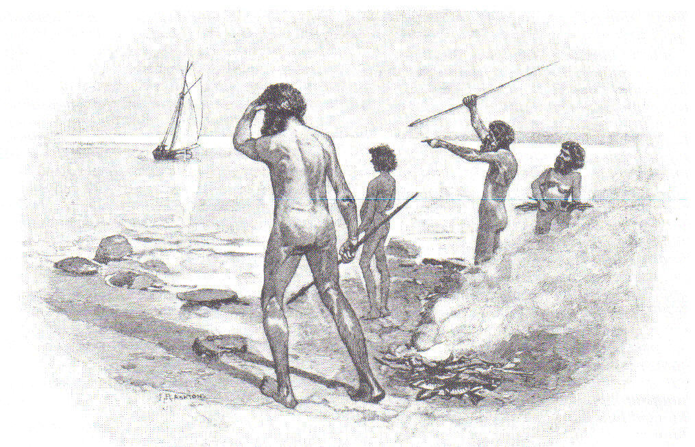 Sketch titled "The finding of Pamphlett" who was lost in the Moreton Bay area, Australia, 1823.